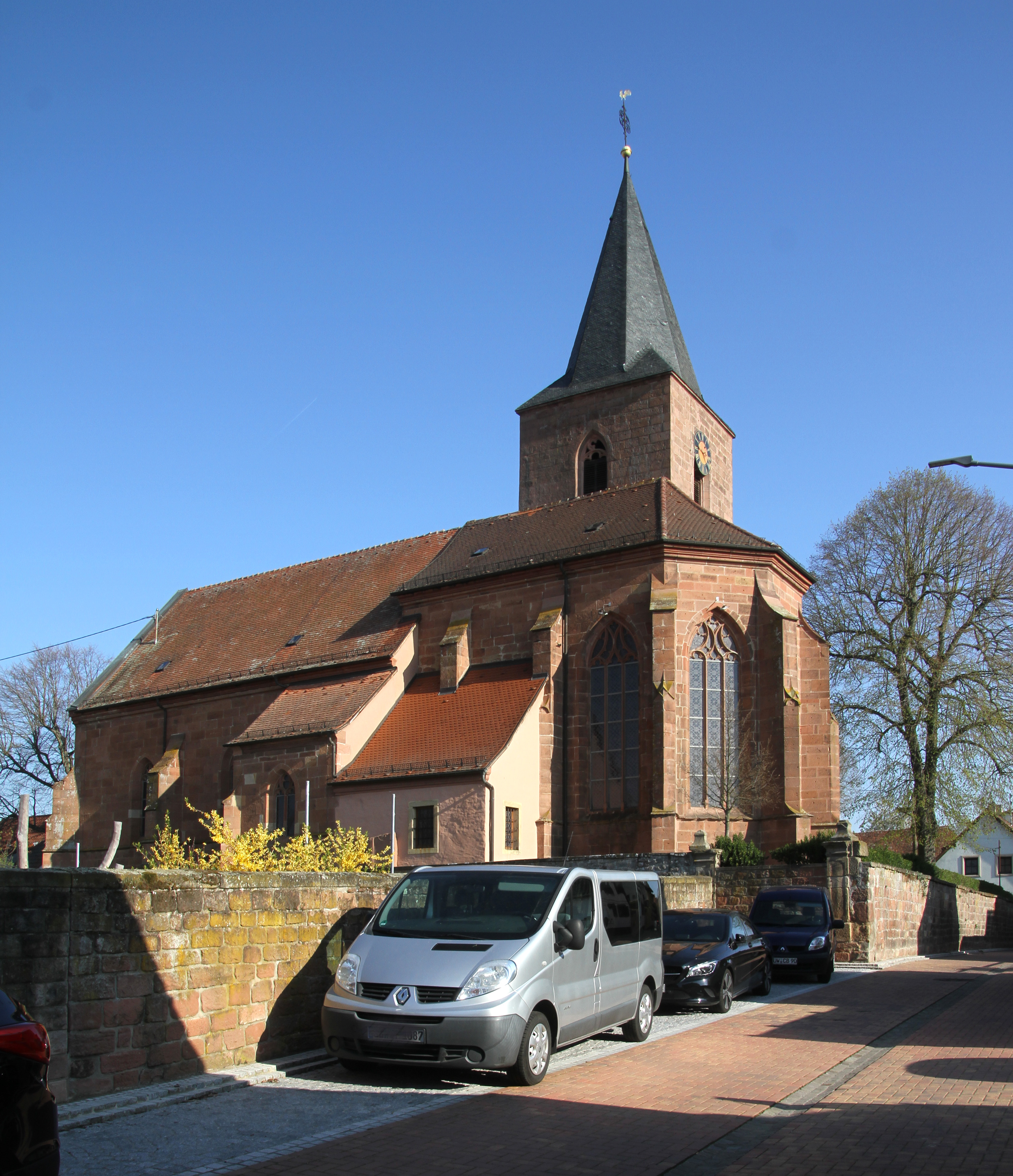 Church of Saint Michael in Rohrbach.